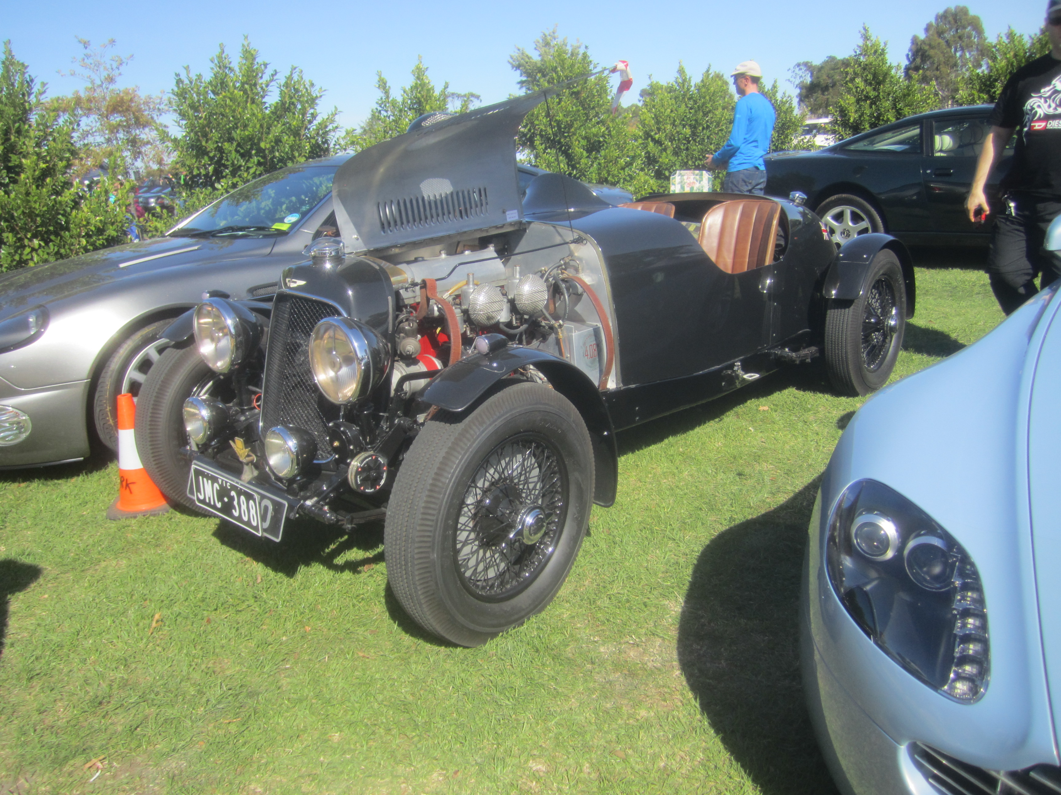 The 15/98 was Aston Martin's standard model from 1936 onward. It was built in both 2 seater short chassis and 4 seater LWB form. Both models were named after their RAC power rating of 15 and an actual output of 98 The Speed Model is the racing version of the touring 2 litre 15/98 They competed in many races in the 30s such as Le Mans